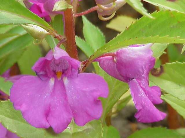 Species: Impatiens balsamina Family: Balsaminaceae Image No. 1